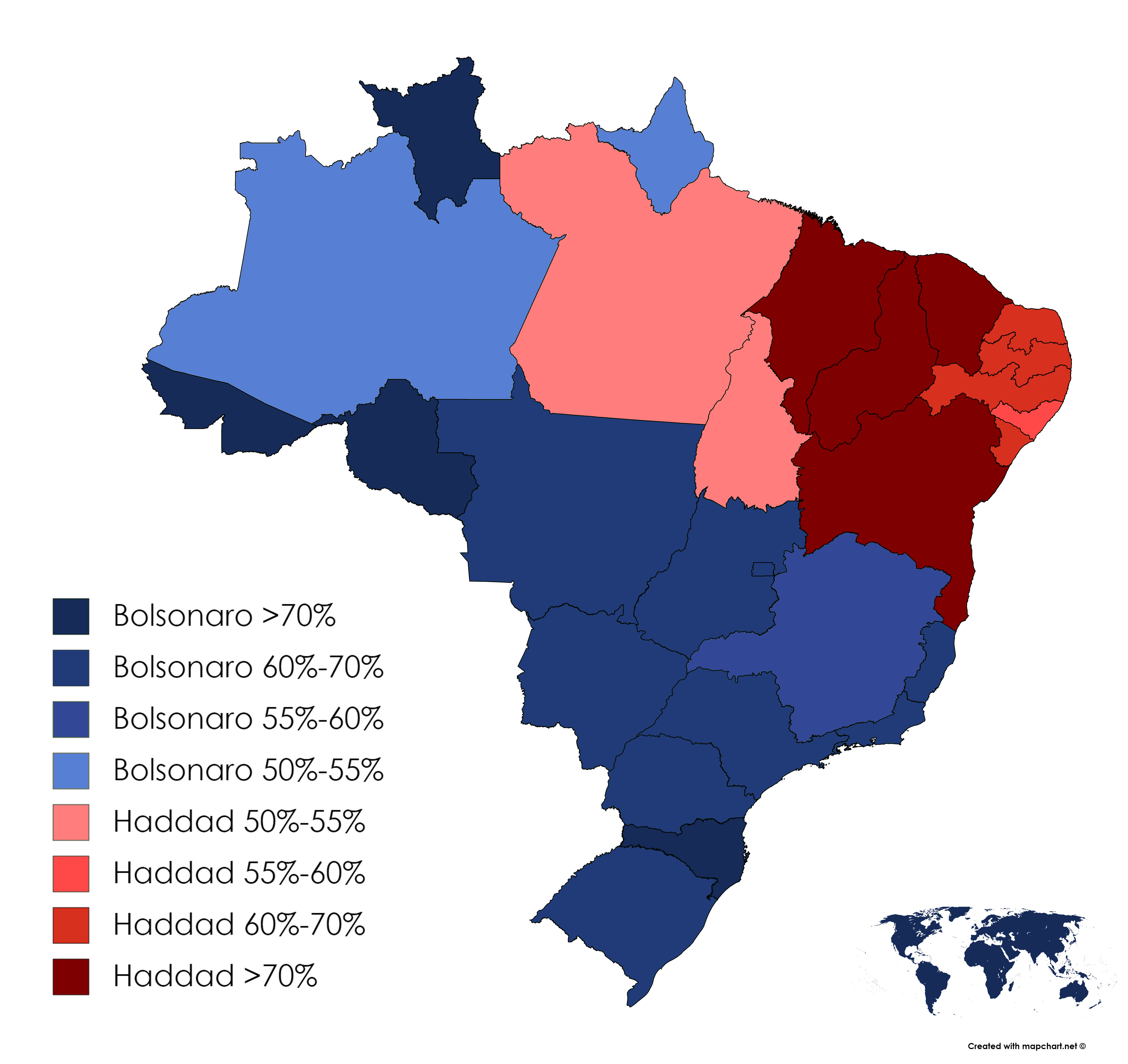 Created with States shaded according to the winner of the state and his score. (shades descriptions are in the image)